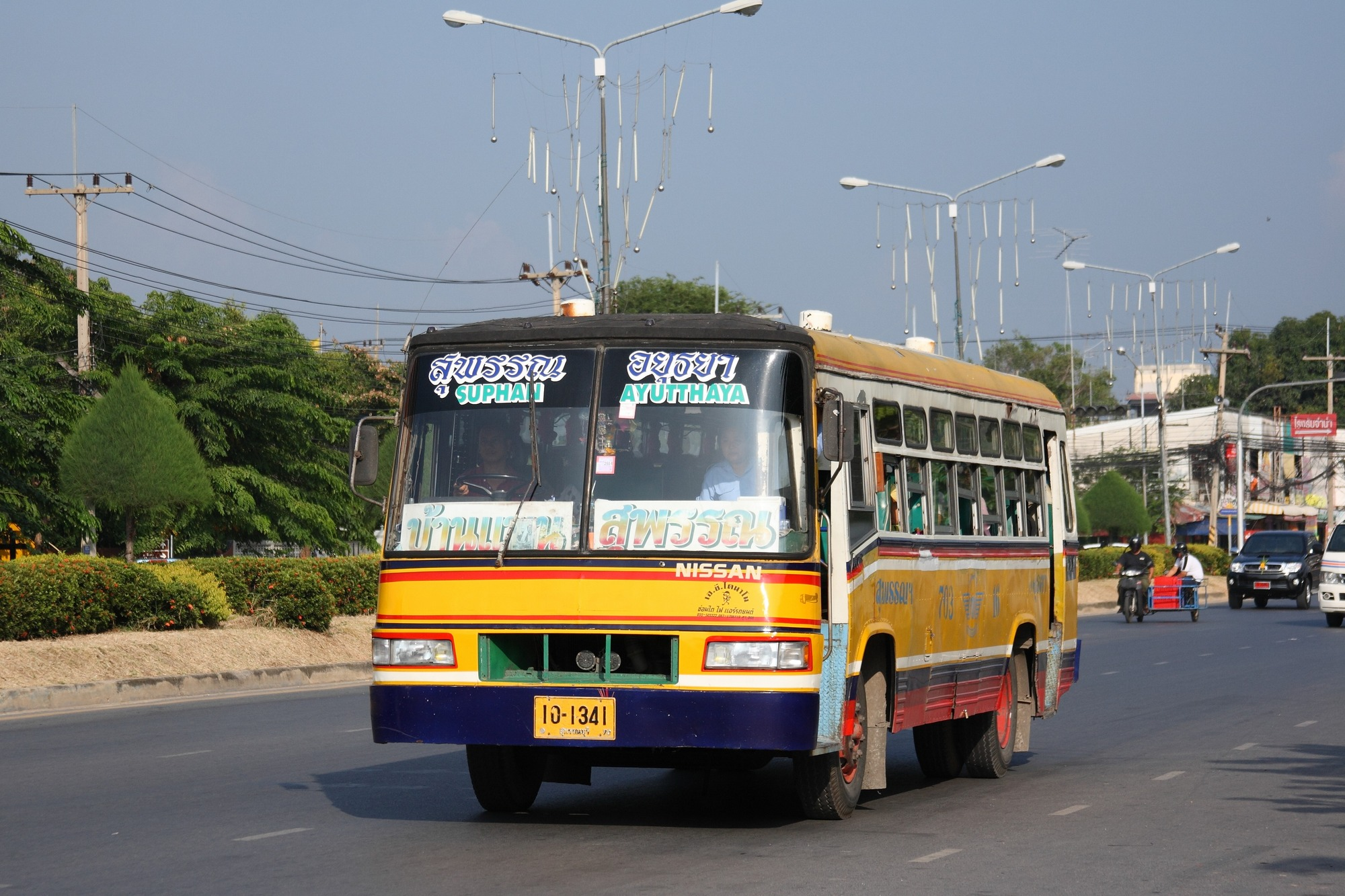 Non-aircon bus in Ayutthaya. Chassis and bodywork unknown.